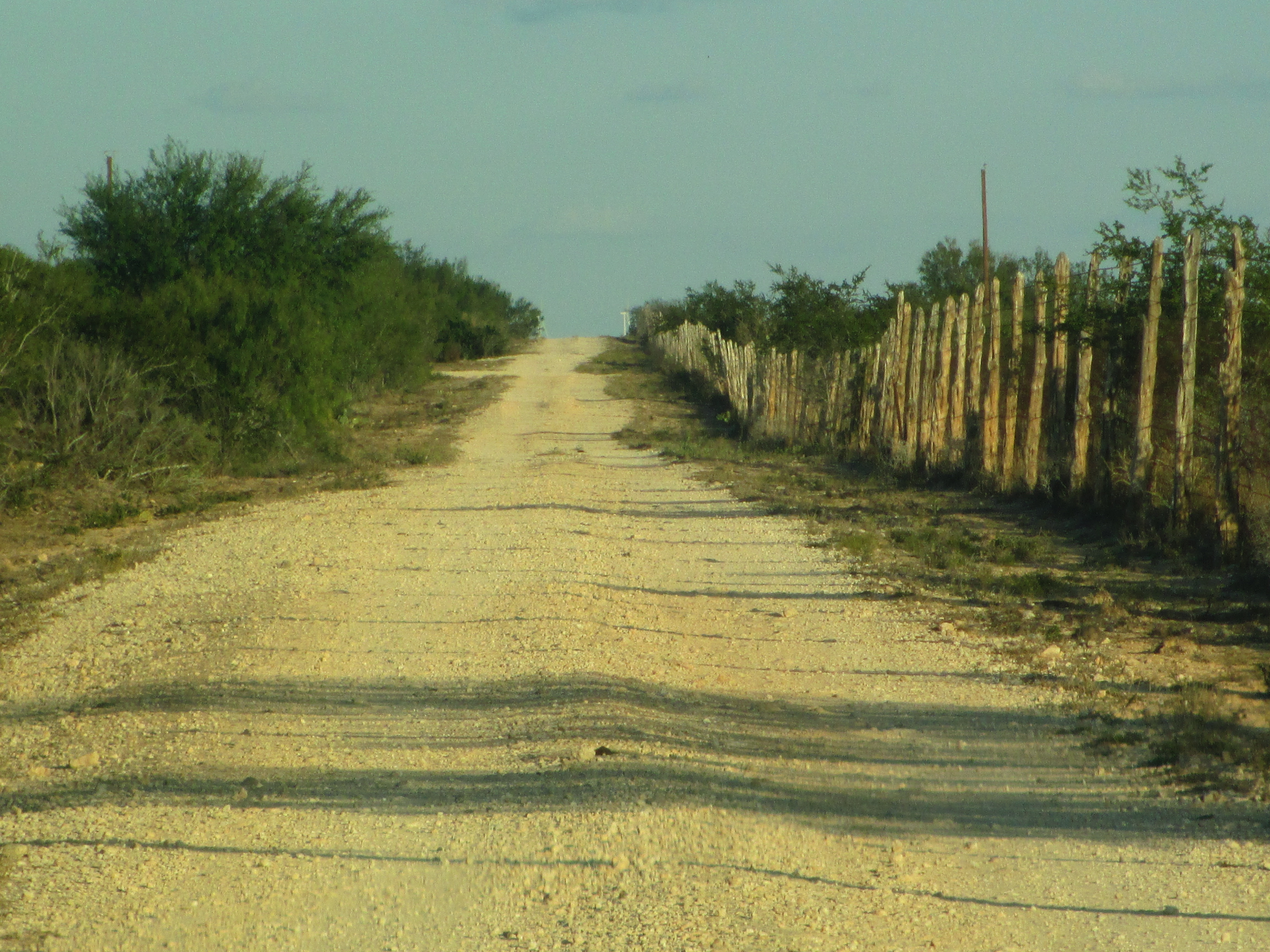 I took photo of isolated ranch road in Webb County, TX, with Canon camera.